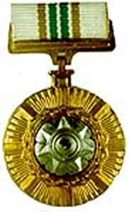 Medal for Military Courage (Georgia)